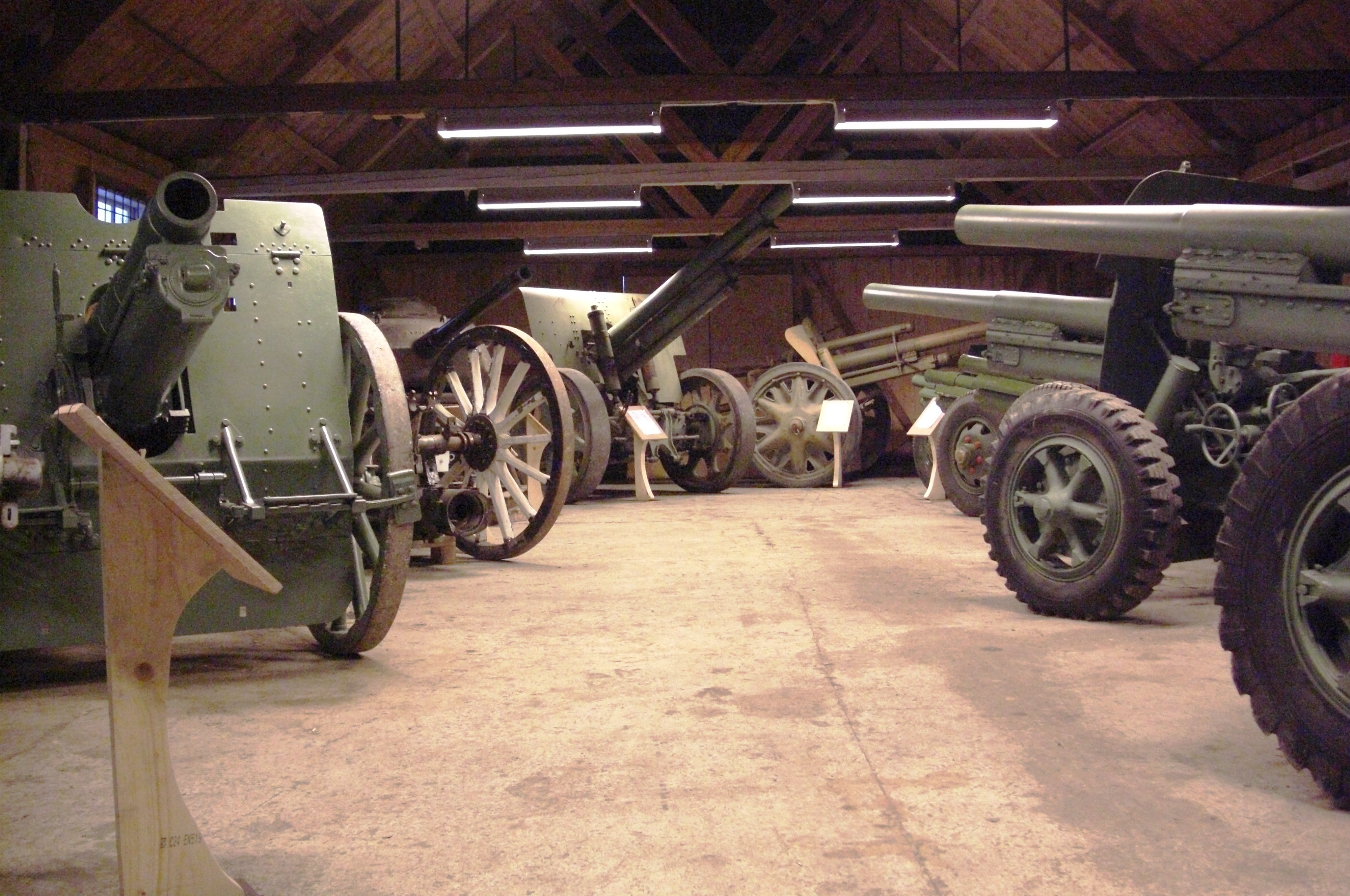 Artillery exhibit